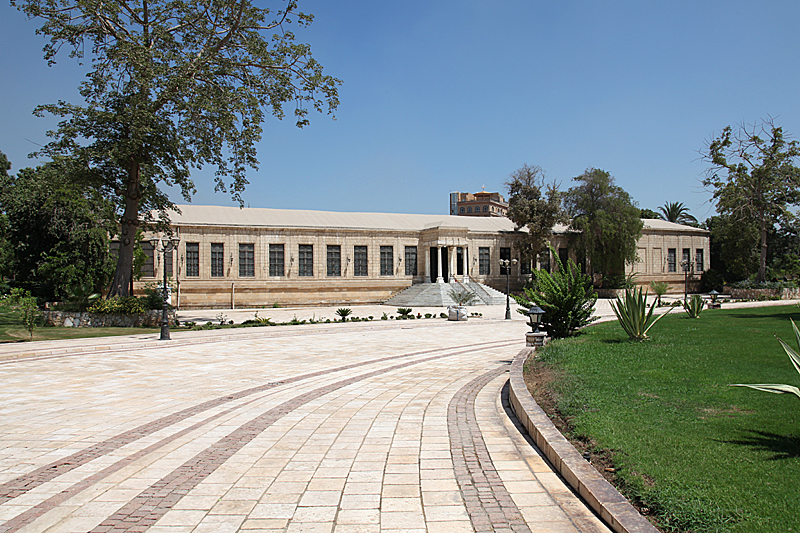 Façade of the Summer palace of Muhammad Ali, Shubra el-Kheima, Egypt